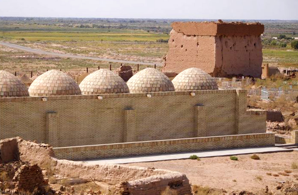 In the ancient expanses of Karakalpakstan, about 20 km from the city of Nukus, is the ancient complex Mizdahkan